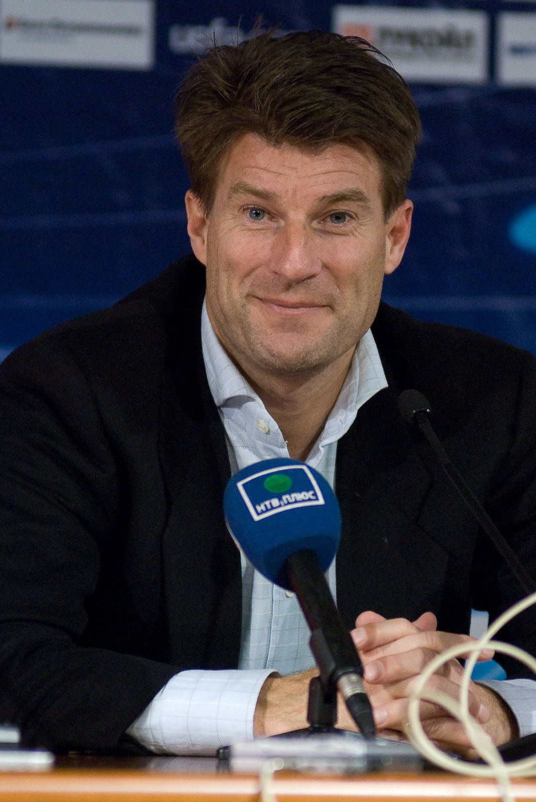 Michael Laudrup at press conference after Spartak Moscow - Udinese Calcio match.